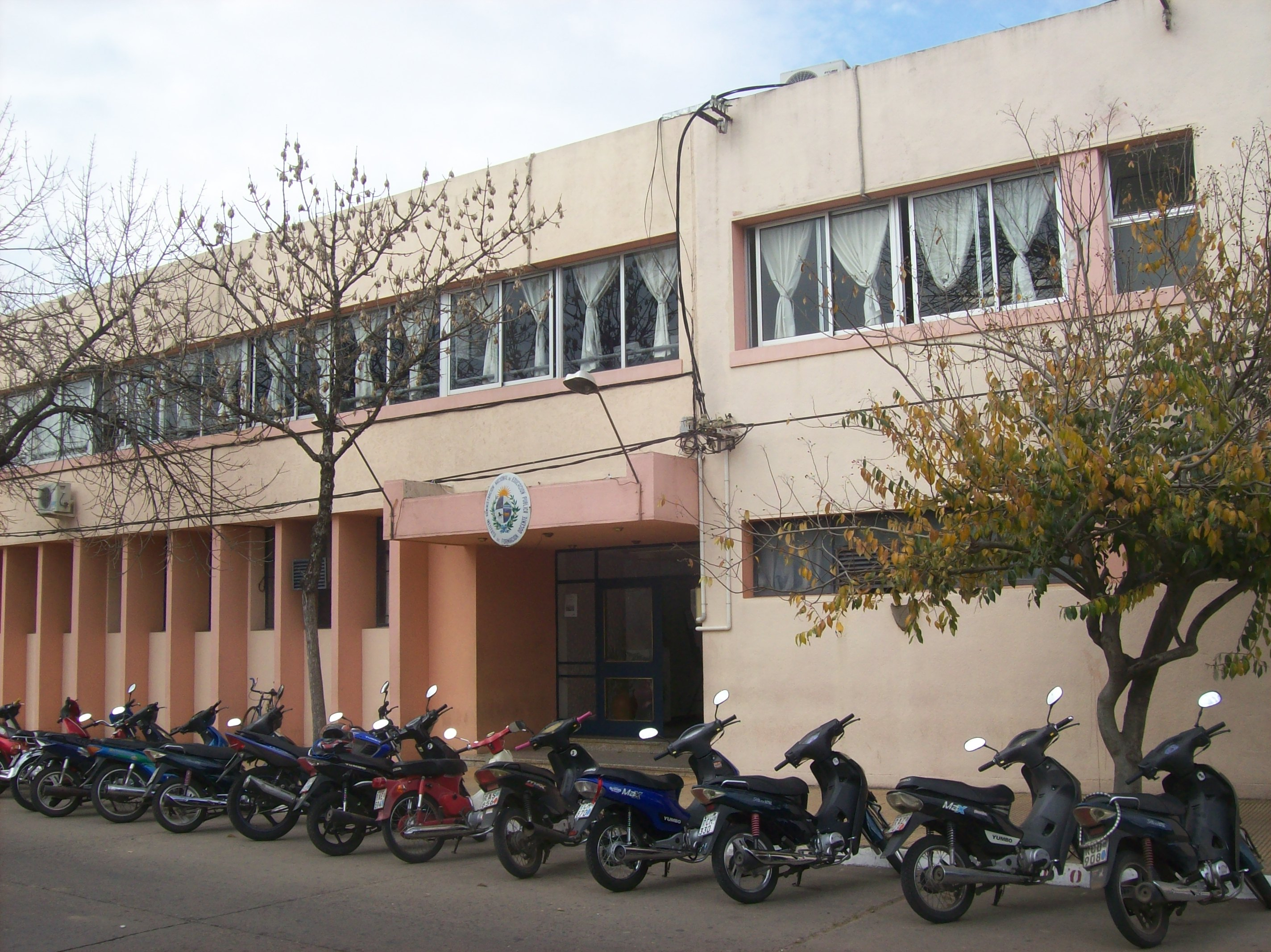 IFD Tacuarembó